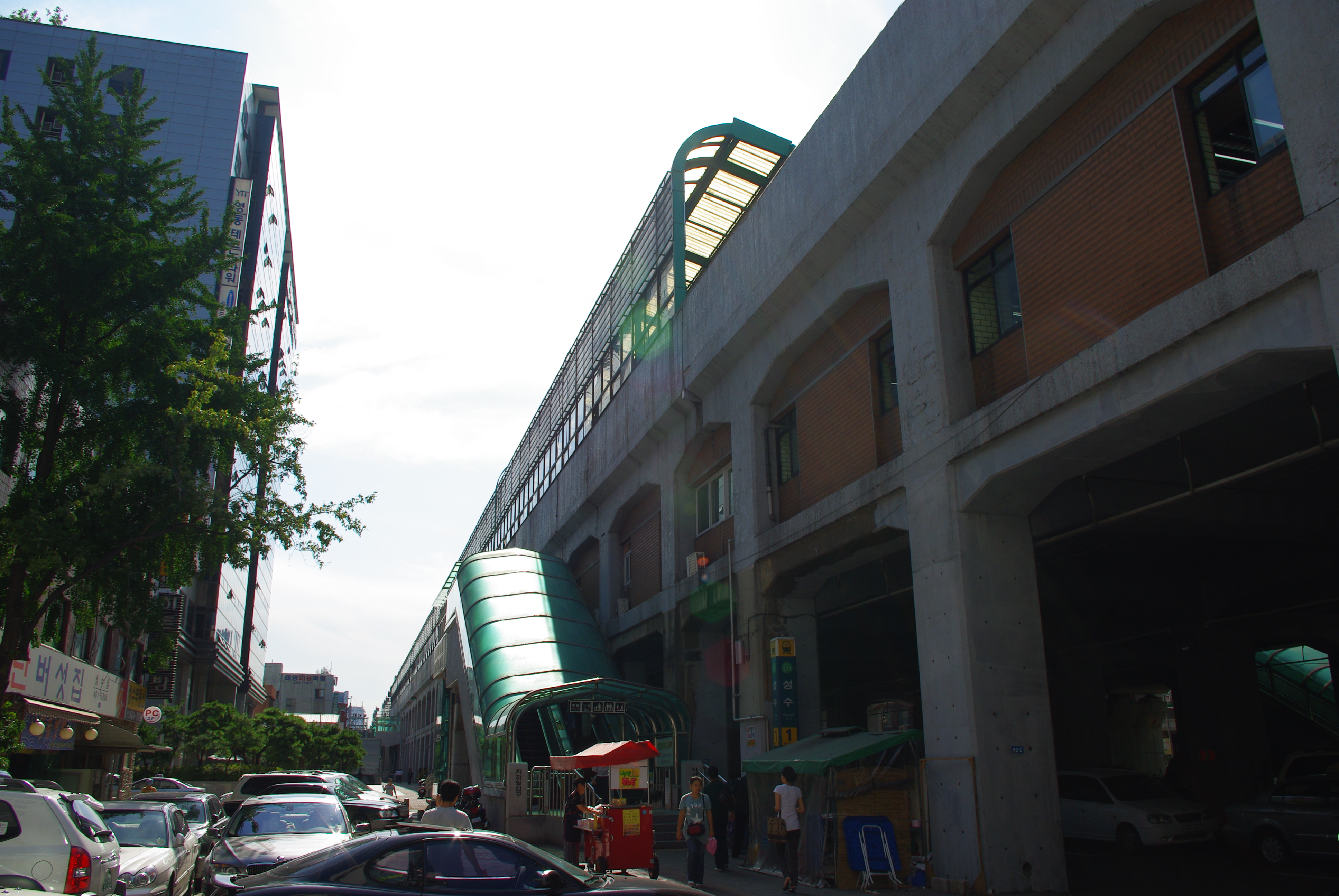 This is an exterior shot of Seongsu-station in Seoul, South Korea